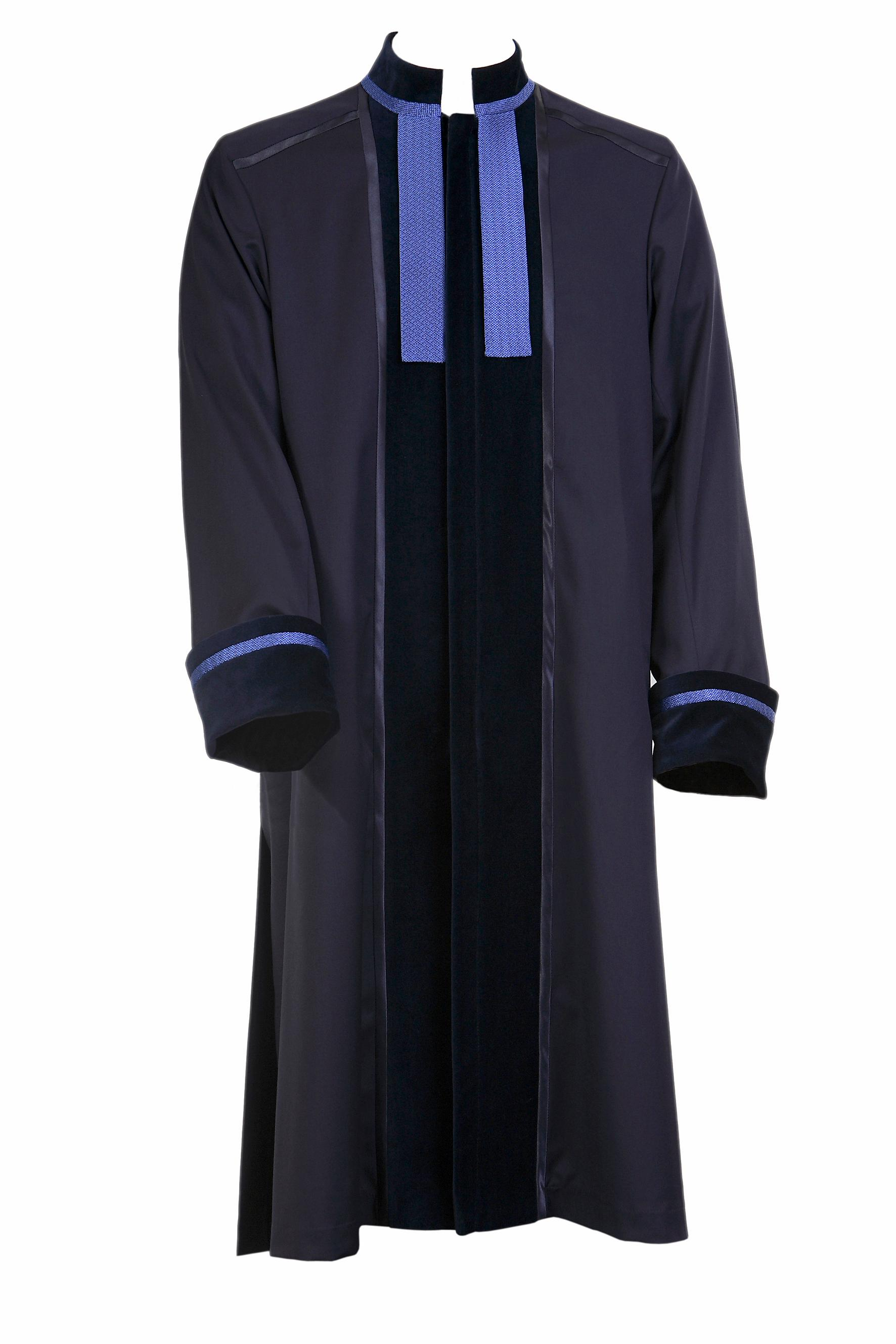 Gown of Czech barrister